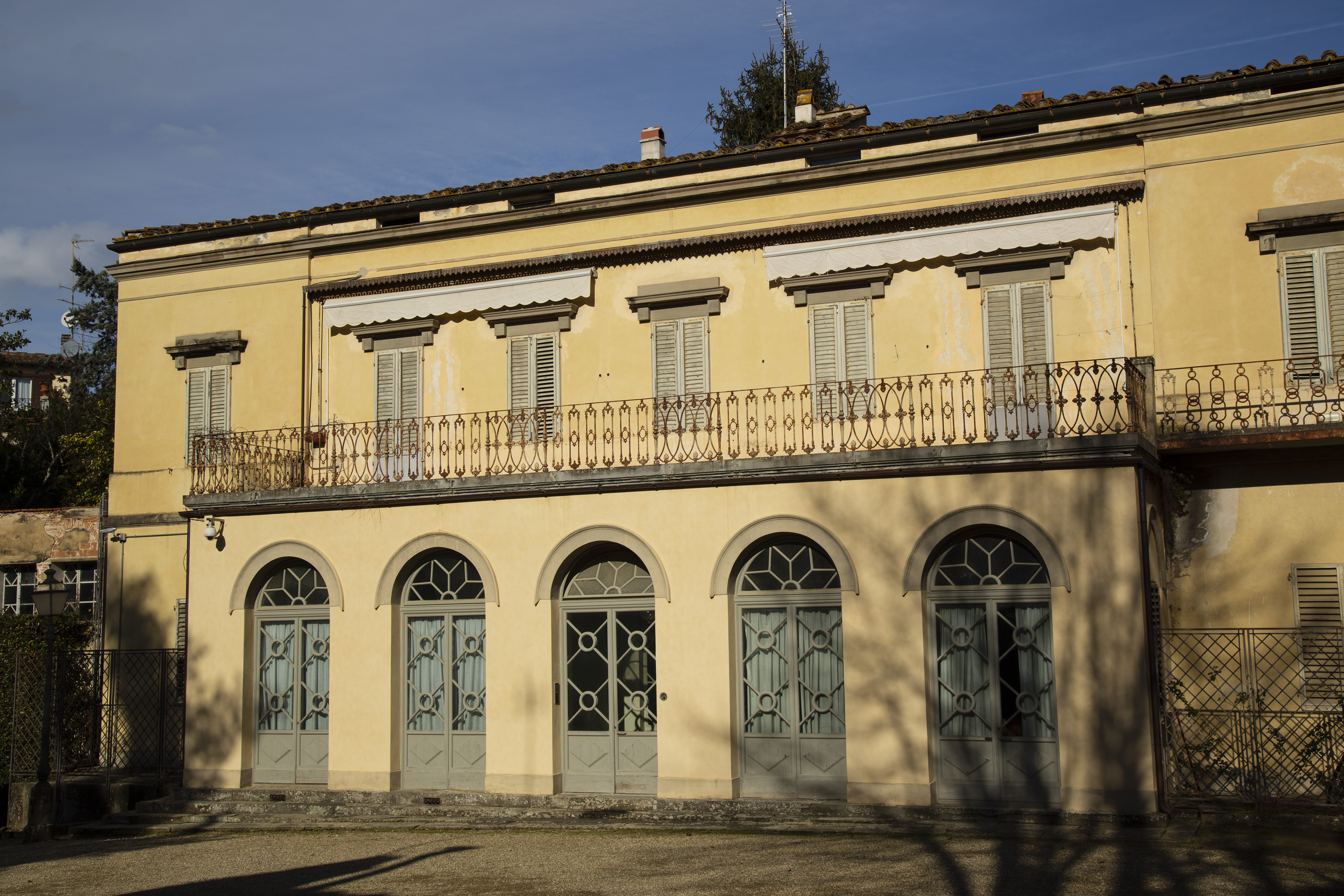 Headquarters of the National Institute of Etruscan and Italic Studies, Florence, Tuscany, Italy